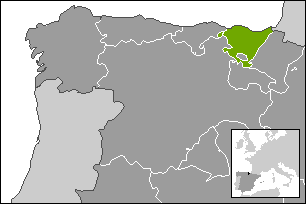 Reference area is NUTS ES1 (Northern Spain).